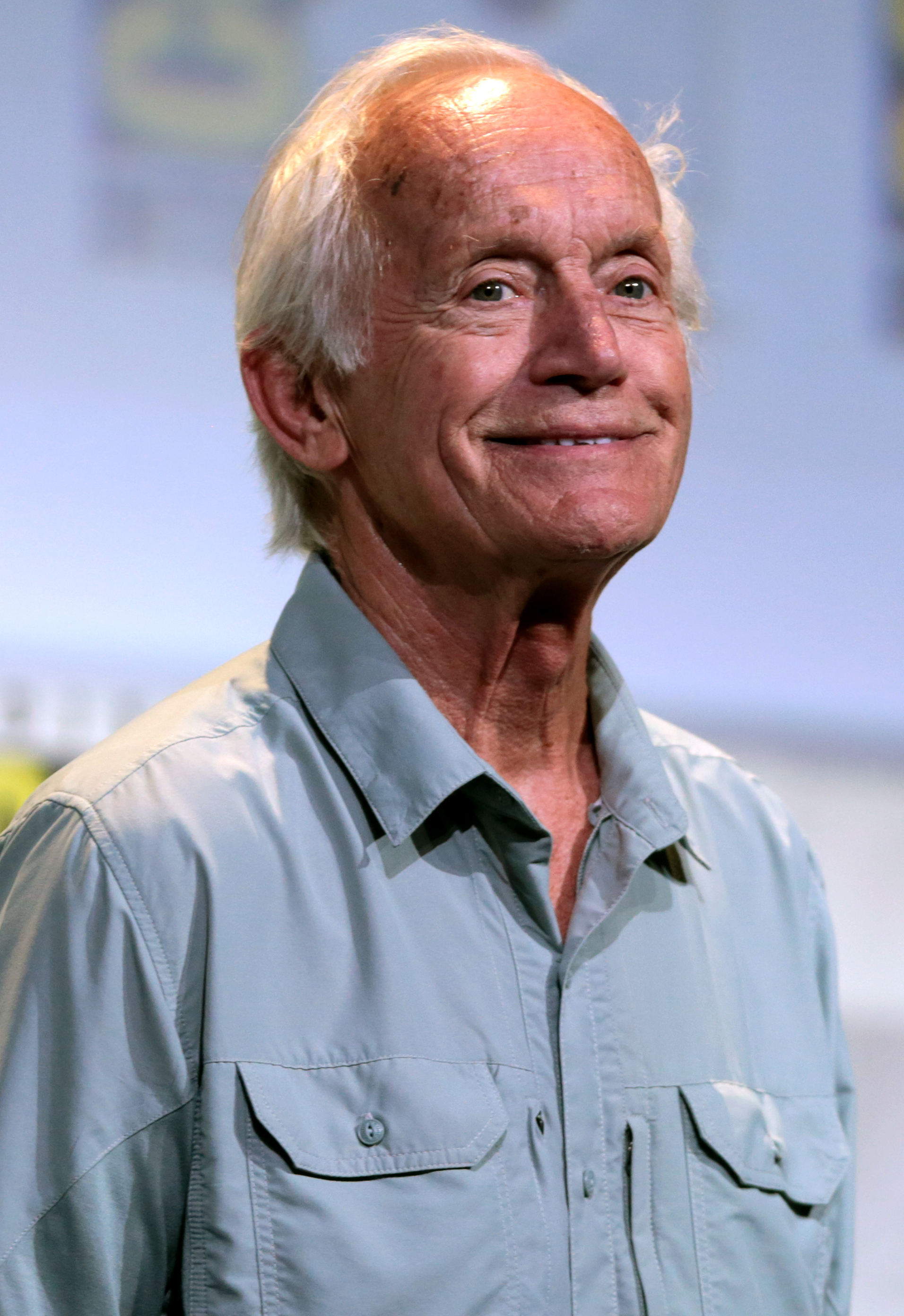 Lance Henriksen speaking at the 2016 San Diego Comic-Con International in San Diego, California.